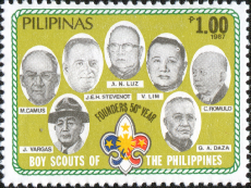 Stamp for National Boy Scout Movement 50th Anniversary, 28 Oct 1987. Features the founders of the Boy Scouts of the Philippines:Joseph Emile H. Stevenot, Manuel R. Camus, Vicente P. Lim, Carlos P. Romulo, Jorge B. Vargas, Arsenio Luz, Gabriel A. Daza